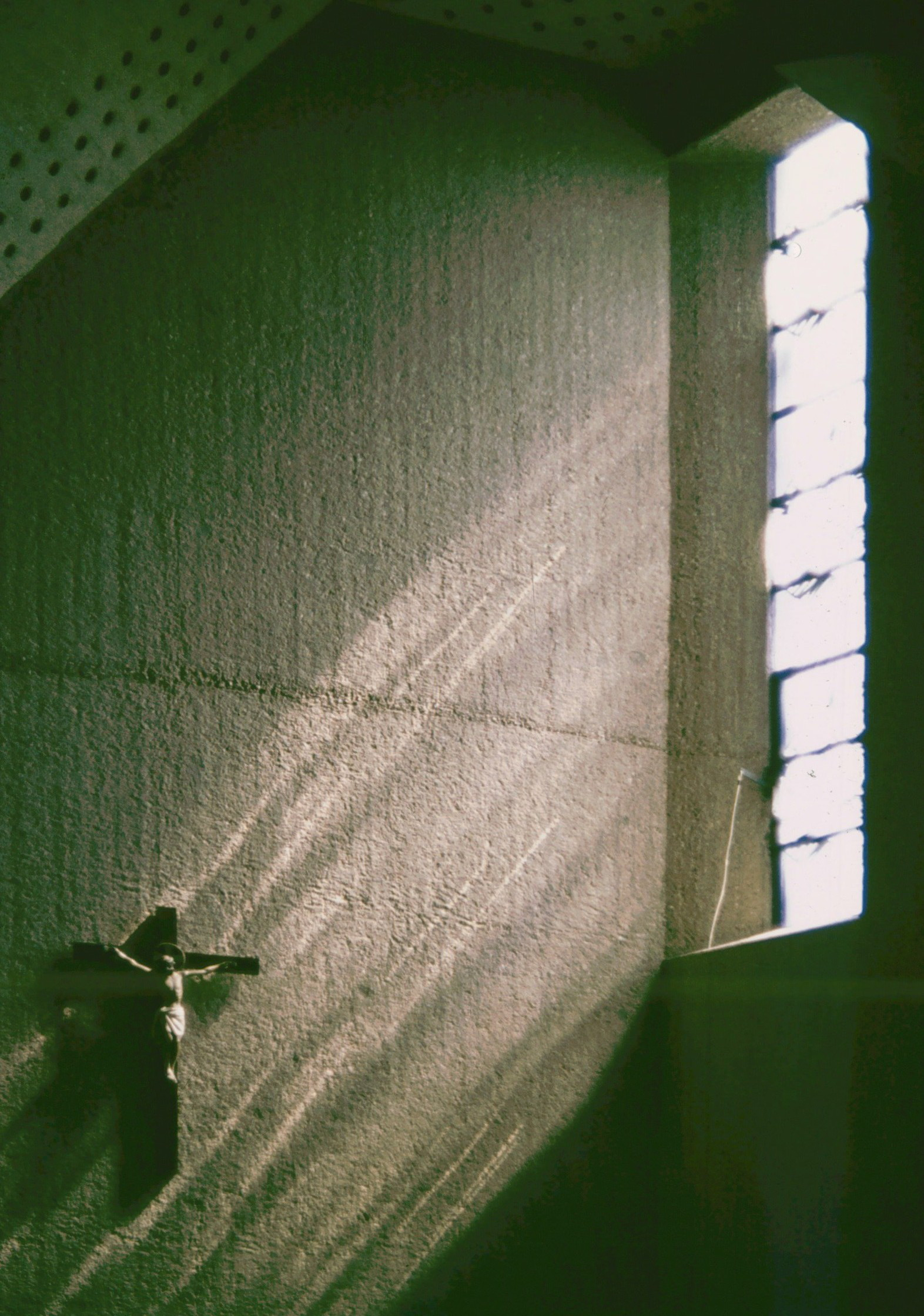 Crucifix in the catholic church of St. Mariä Heimsuchung in Impekoven